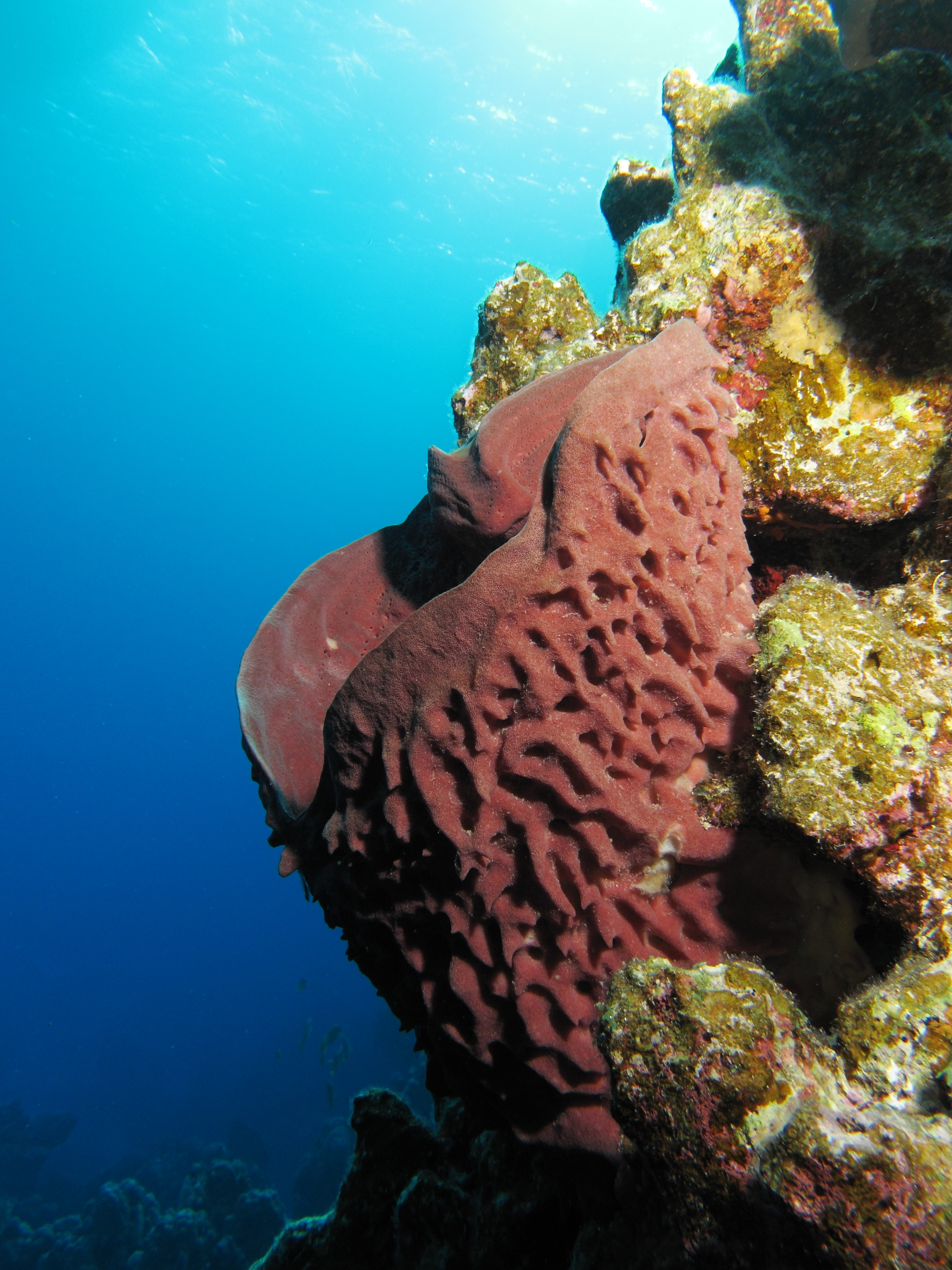 Callyspongia crassa sponge at Shaab Claudia reef (Red Sea, Egypt)